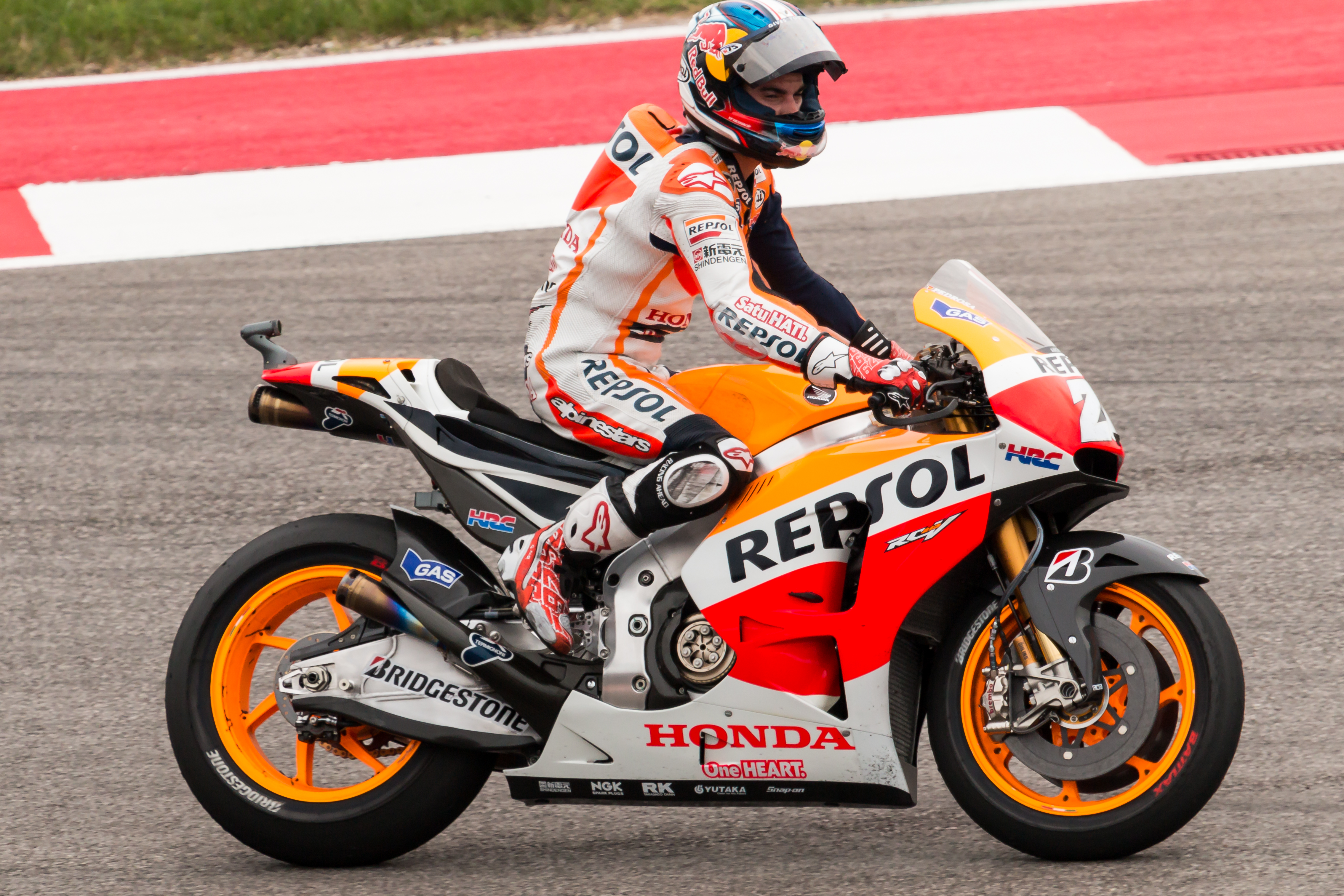 Dani Pedrosa on his cool down lap after the race